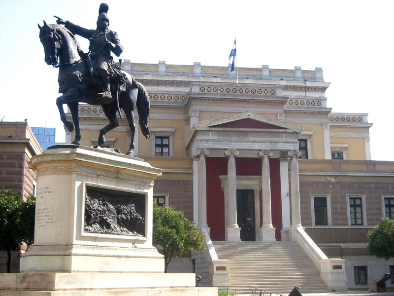 The statue of Kolokotronis in Athens, Greece. Photo taken in 2006.